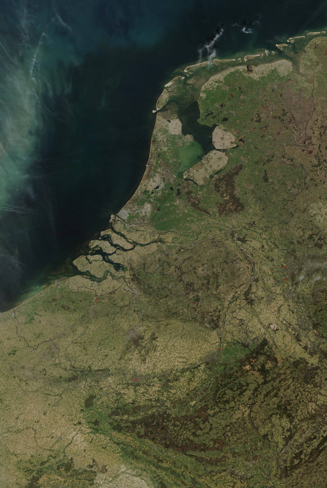 This is the lower‐resolution of two images of the Benelux. The red dots outline forest fires at the time of the photograph